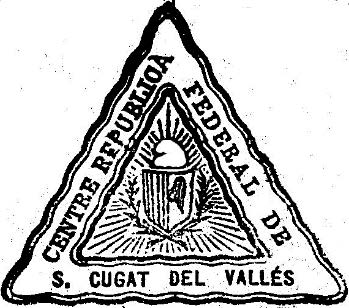 Logotip del Centre Republicà Federal de Sant Cugat del Vallés